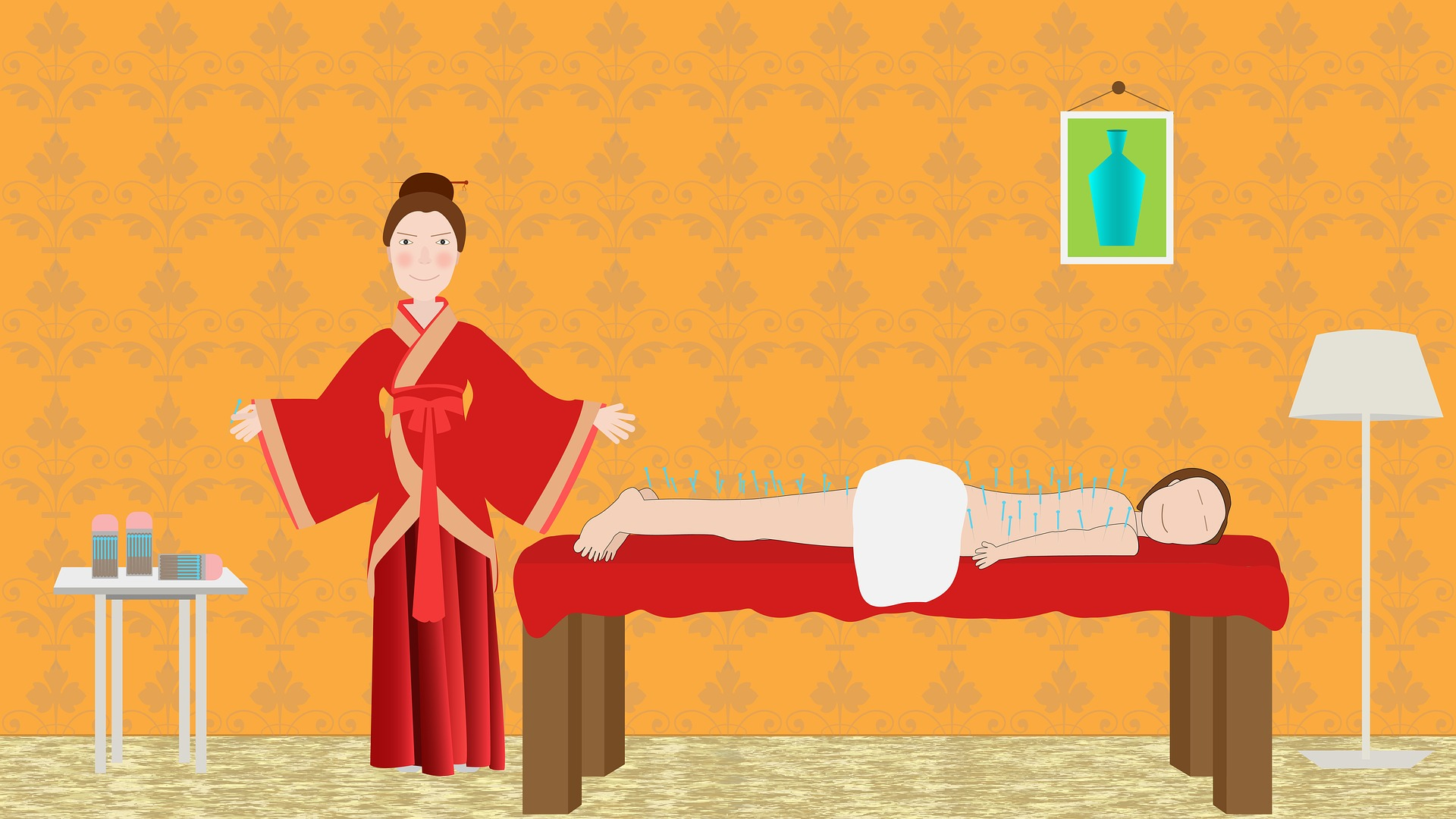 Chines accupuncture massage